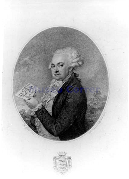 Portrait of noblemen Daniel Delfin, venetian ambassador to France during the reign of King Louis XVI.